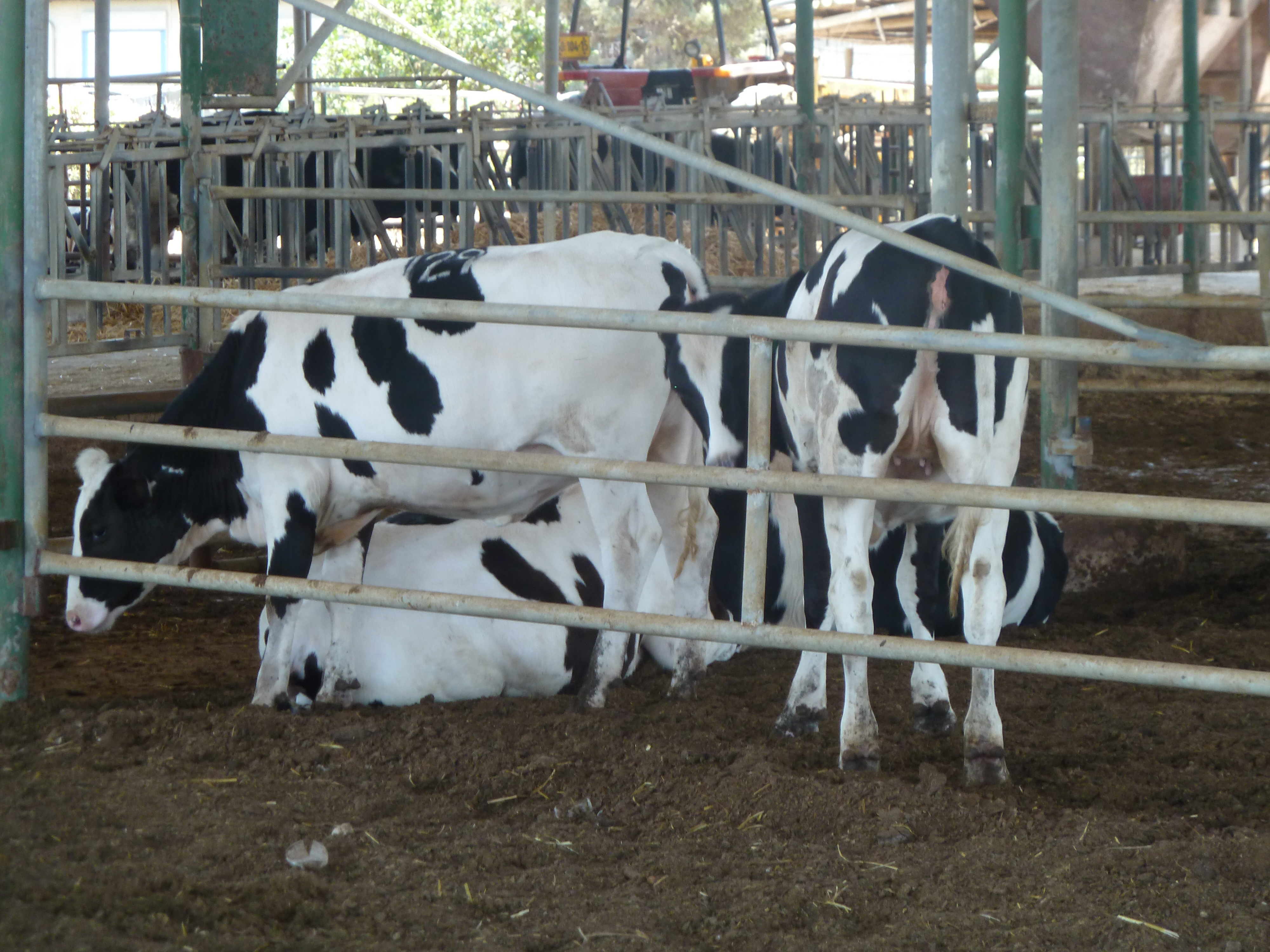 Bethlehem of Galilee, Israel